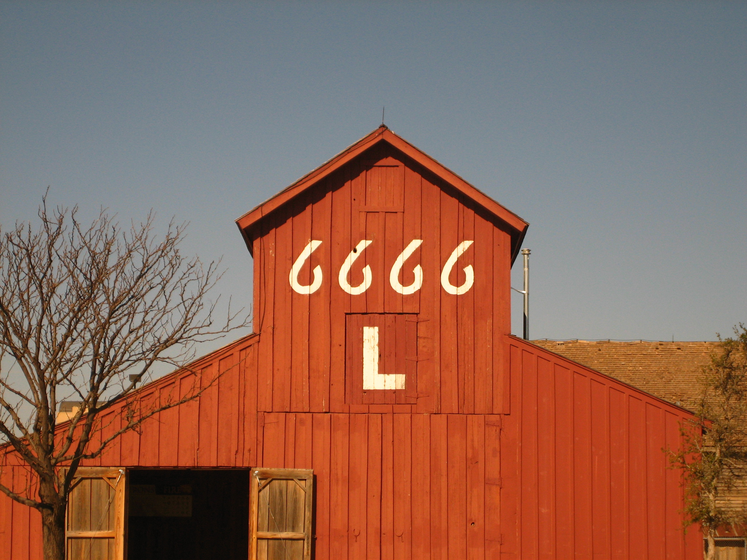 Red barn at the National Ranching Heritage Center. At Texas Tech University in Lubbock, Texas.